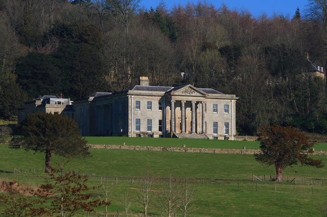 Pythouse - West Tisbury Grade II* Listed country house built circa 1725, and rebuilt in 1805. It survives today as private residential apartments.